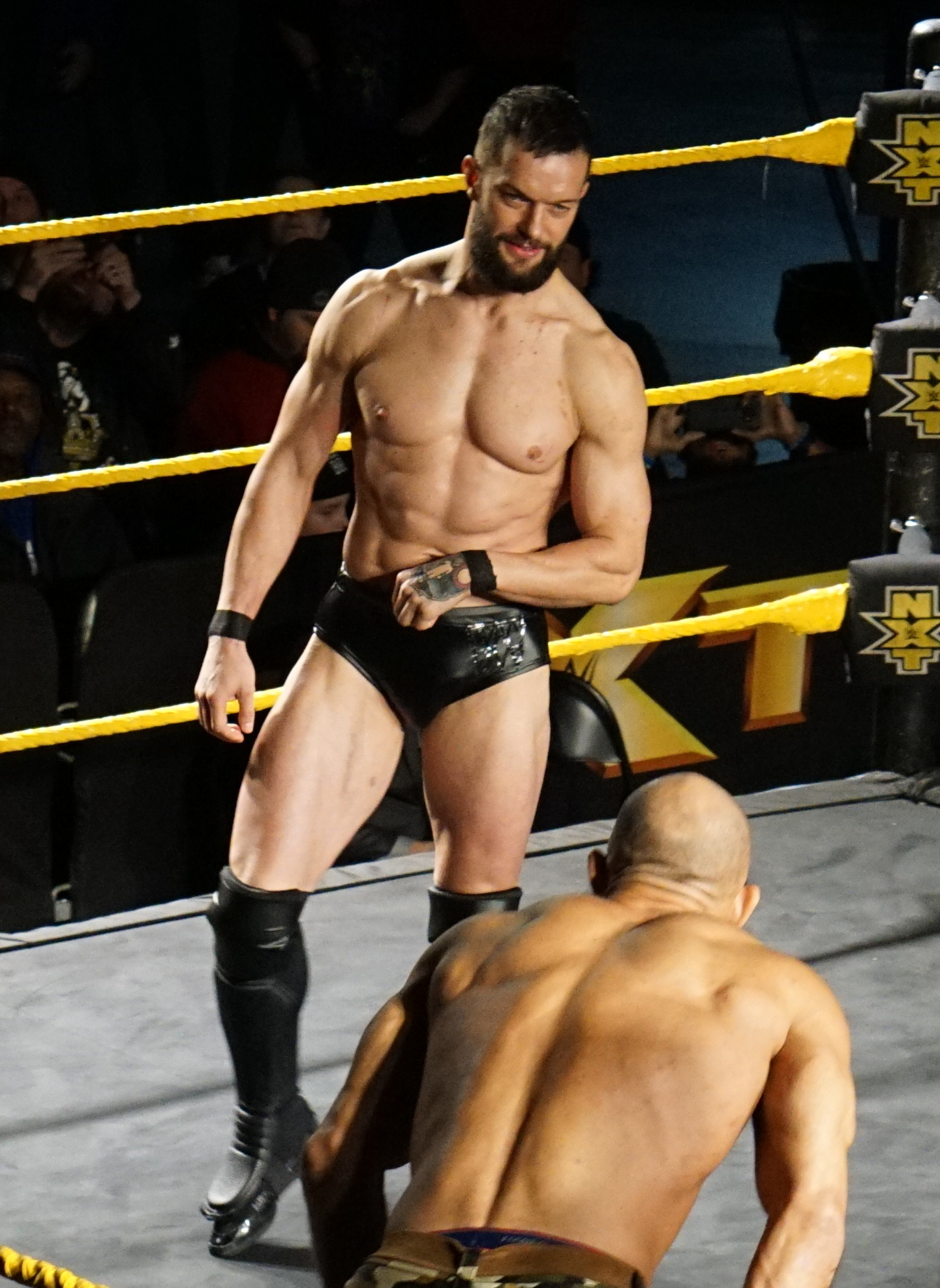 Balor at NXT live show in Buffalo, NY.